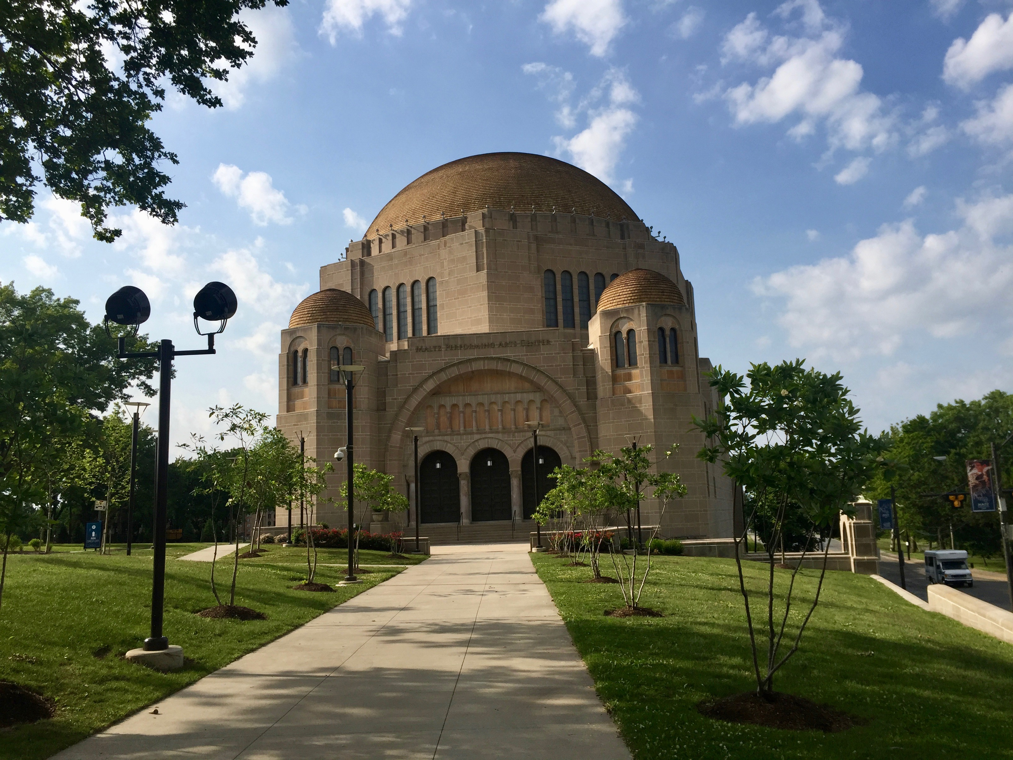 Temple Tifereth Israel is located at the corner of East 105th Street and an orphaned portion of Ansel Road, which no longer quite connects to the Hough neighborhood as it once did, though the area is still considered to be in a portion of Hough that is much better connected to University Circle. Constructed in 1924 and designed by Charles R. Greco, the "modified Byzantine" revival-style structure was built for the congregation of Tifereth Israel, which had migrated eastward from a more central area they inhabited as the first reform congregation in Cleveland from 1850 until the early 20th Century. The large building is topped with a massive gold-colored dome, with simple detailing that is somewhat similar to the later Art Deco style, with clean lines and hierarchical massing. The building continued to house the congregation as they migrated further eastward into the Cleveland Suburbs throughout the mid-20th Century, but ended up moving to Beechwood in 1969, where a new synagogue and educational facility were built, which has since supplanted this building almost entirely. Today, the building is owned by Case Western Reserve University, and is used as the Milter and Tamar Maltz Performing Arts Center, with occasional significant religious and cultural events being held in the building by the former congregation. The building is one of Hough's most significant landmarks, and was listed on the National Register of Historic Places in 1974.